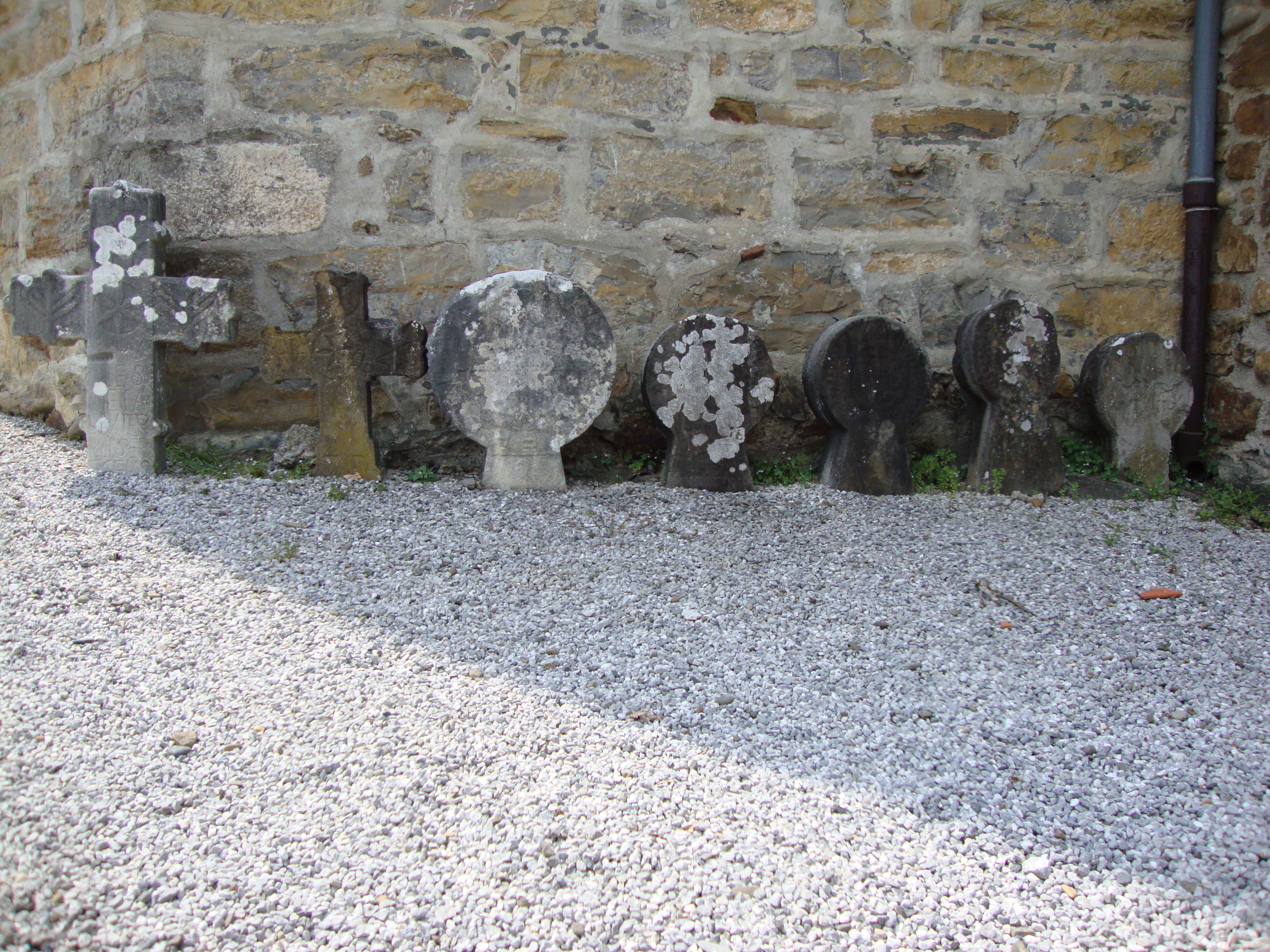 Charritte-de-Bas (Pyr-Atl, Fr) vieilles steles discoïdales